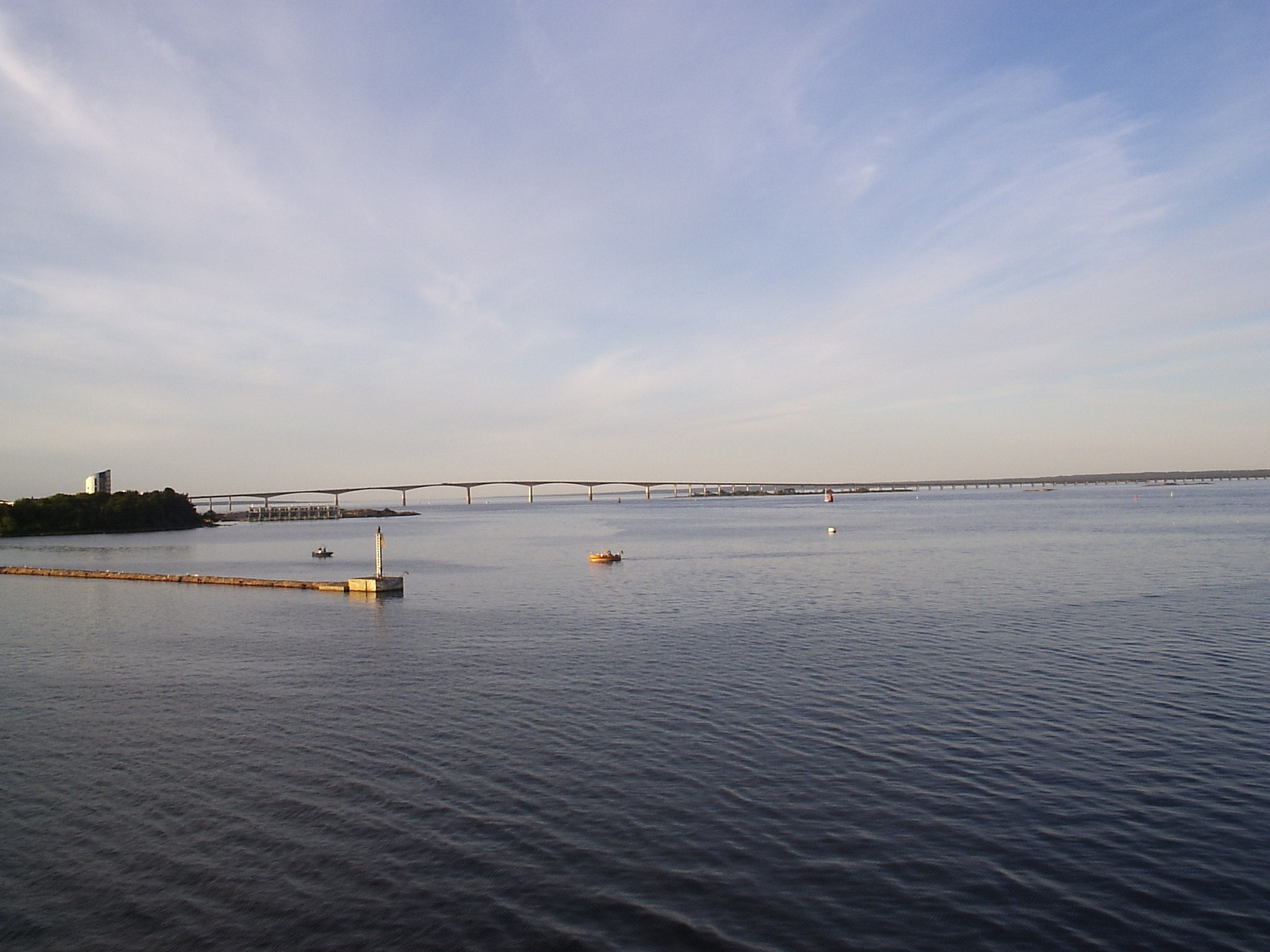 The bridge at Kalmar in the late autumn sun- picture by R Neil Marshman (c) - see metadata